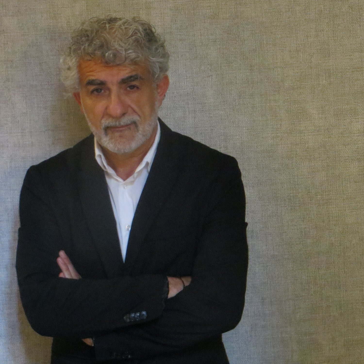 Jose Antonio Sobrino